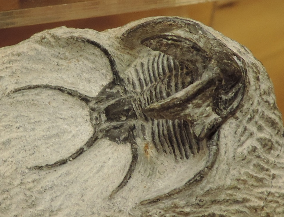 Cropped image of taxon in file name